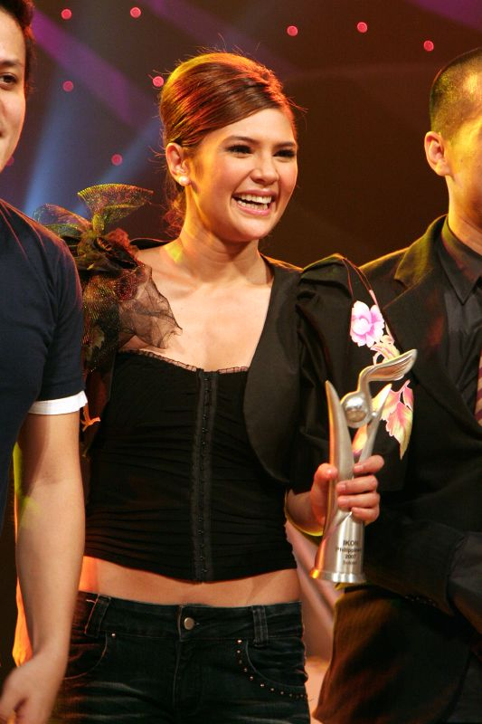 Vina Morales, Filipina actress